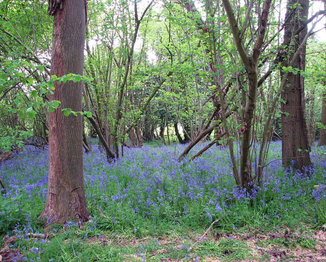 Bluebells in King's Covert King's Covert is a small woodland which is adjoined by King's Beck in the west and surrounded by fields and pastureland. At the beginning of May bluebells can be found growing here in great abundance. Bluebells (Hyacinthoides non-scripta) are also called wild hyacinths and can be found growing in wooded areas. The plants flower between April and June.